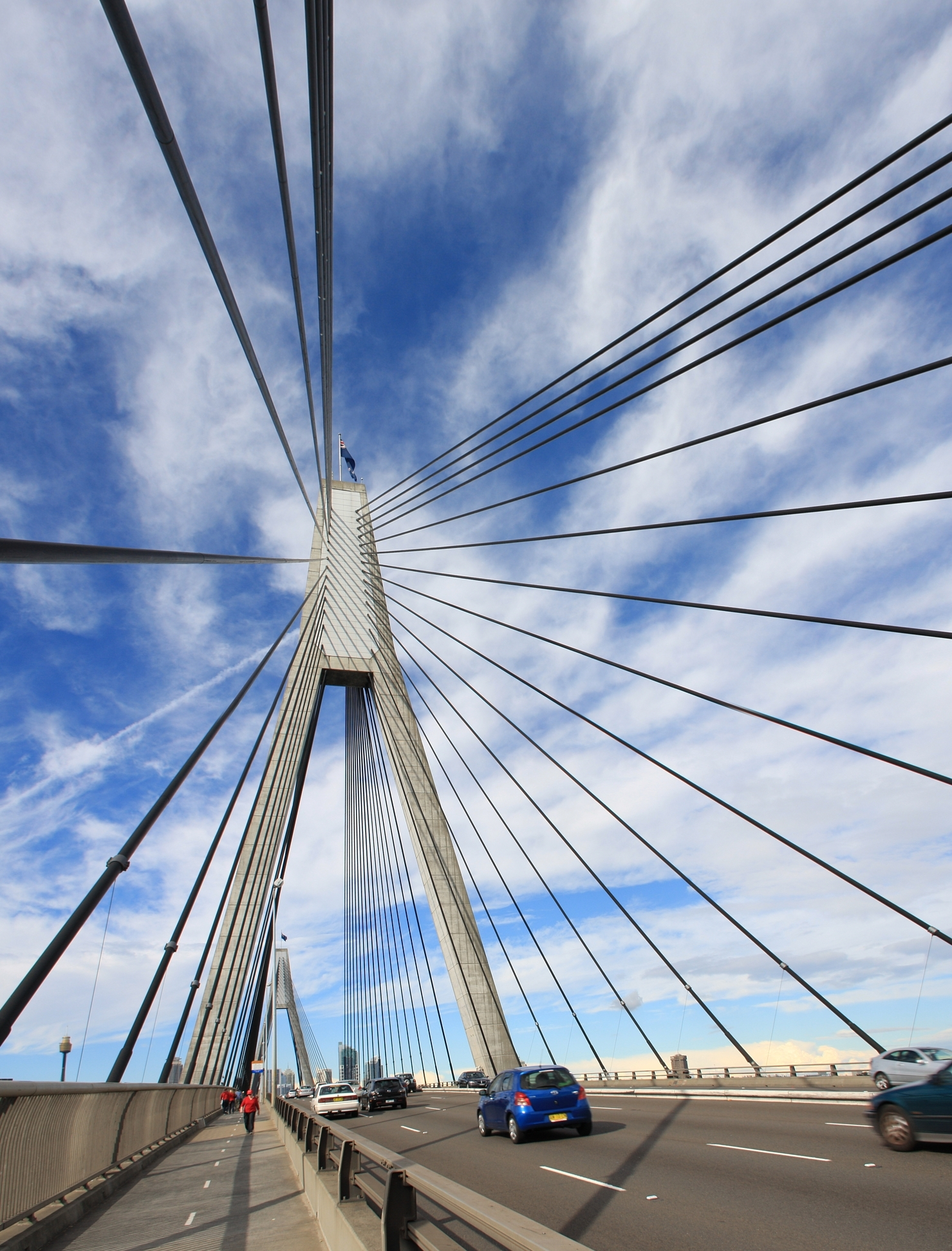 Anzac Bridge pylon cables from up close